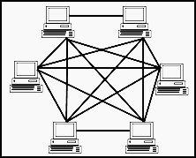 मेश टोपोलॉजी (Mesh Topology)